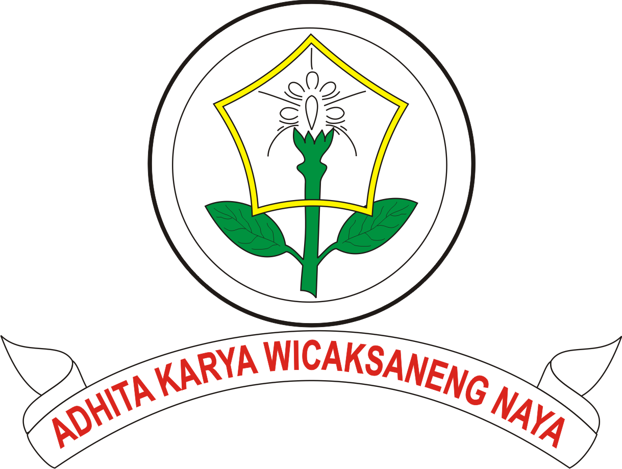 Logo Pusat Pendidikan Polisi Militer Angkatan Darat